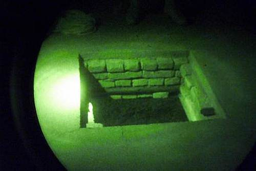 Outside the opening to the fourth tunnel discovered recently by U.S. Marines in Afghanistan. Photo by Lance Cpl. Nathan E. Eason, USMC